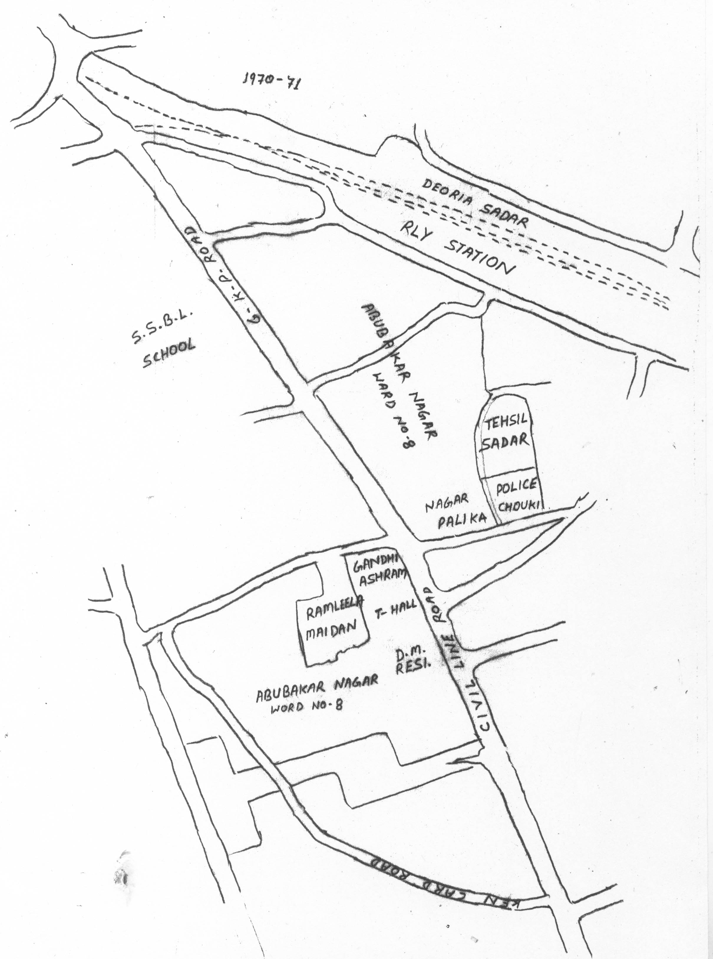 Nagar Palika introduse a new ward (Ward No 8) as Abubakar Nagar in 1971-1972